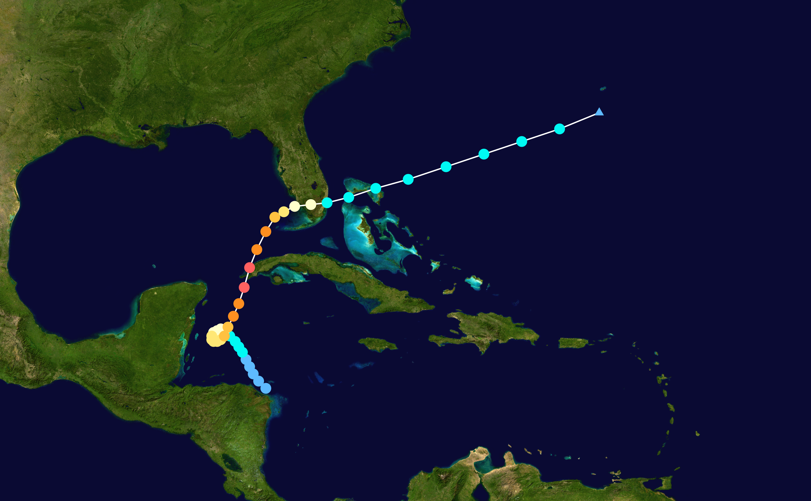 1924 Atlantic hurricane 10 track. Uses the color scheme from the Saffir-Simpson Hurricane Scale.